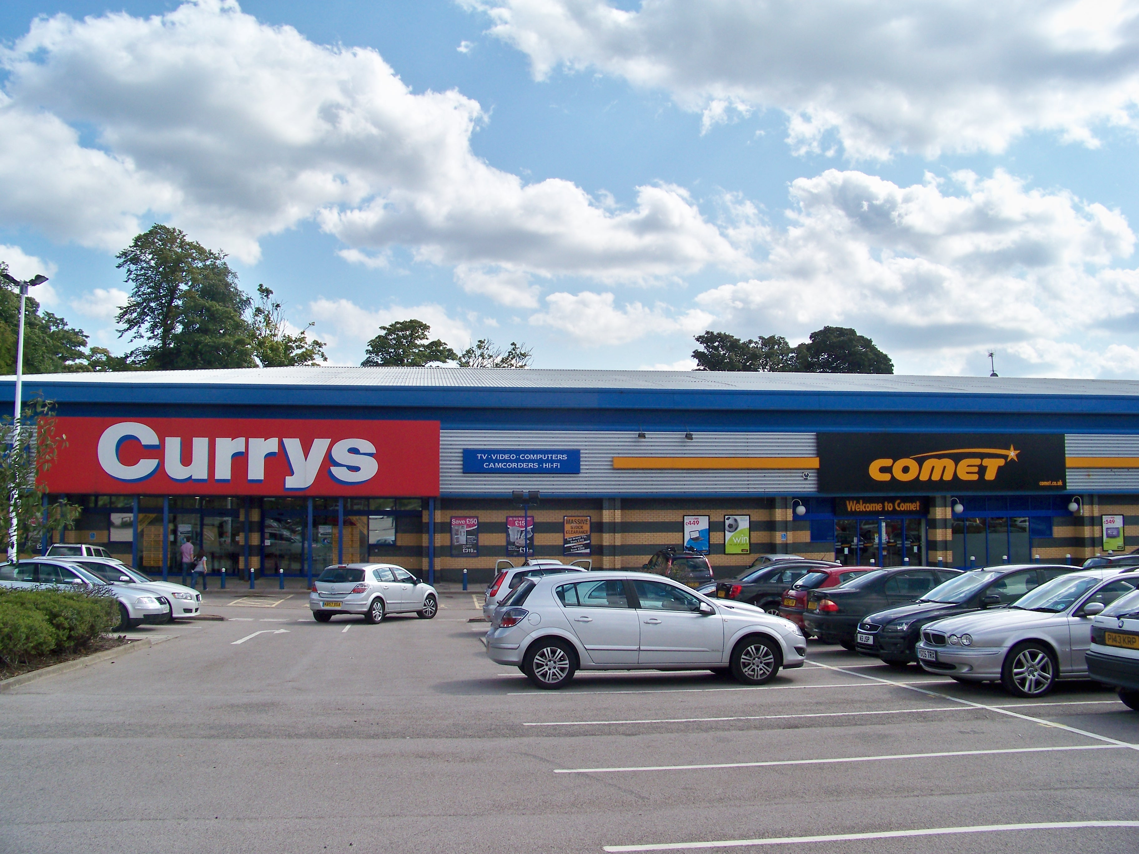 Comet and Currys, two of the biggest competitors in the UK consumer electrical sales markets shops adjacent to one another at a retail park in Guiseley, West Yorkshire. Taken on the afternoon of Saturday 22nd August 2009.